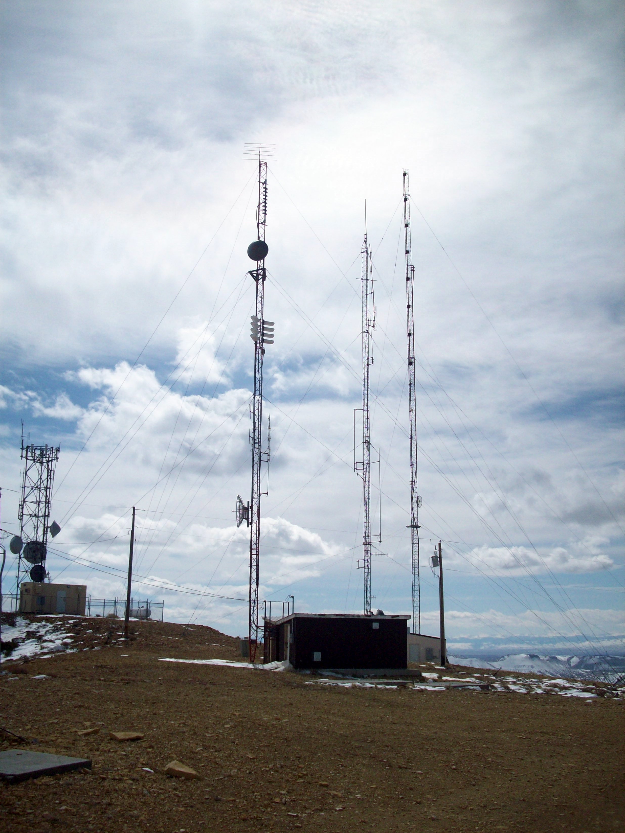 K22BK and K35CN {two smaller towers left) and KFRZ/KZWB 92.1/97.9 FM (large tower farthest right). KFRZ is on top, KZWB is the bottom half of the tower. March 19, 2008.